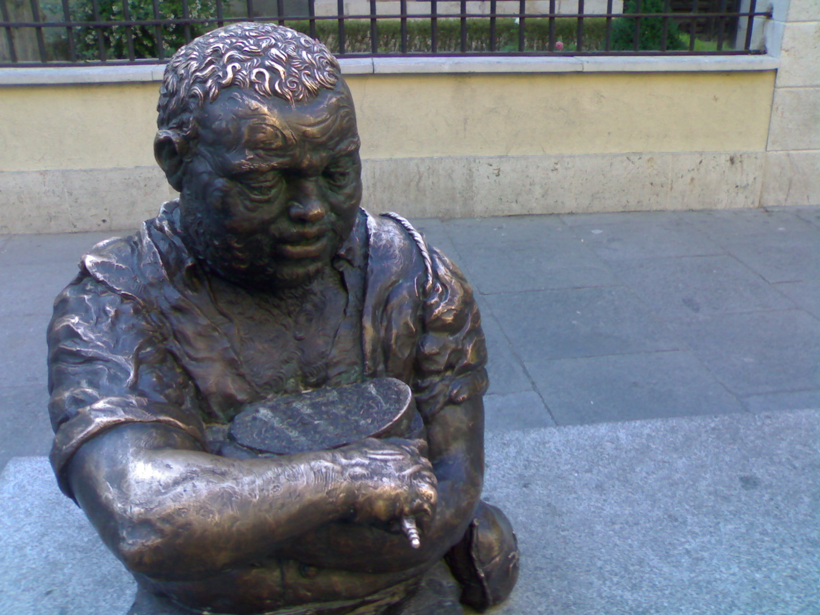 Sancho Panza thinking.